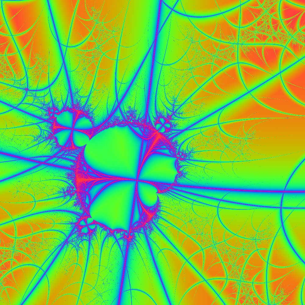 Rendering of Pickover stalks in the Mandelbrot set.